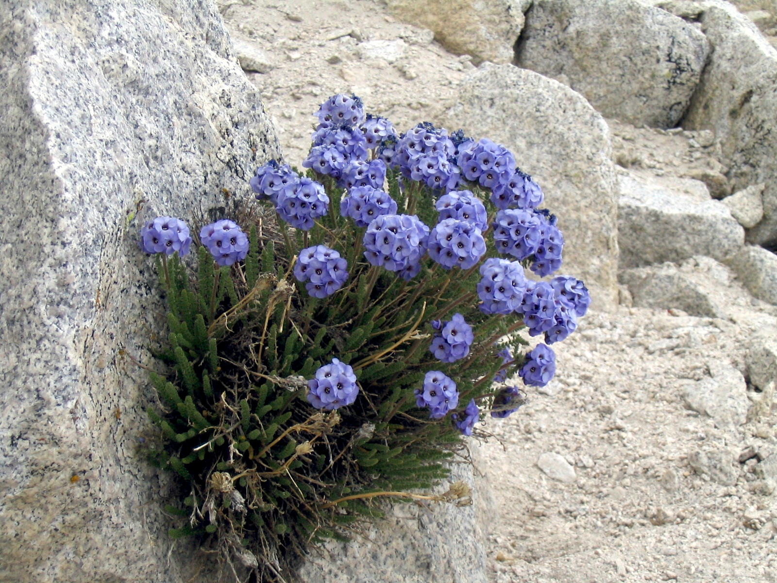 Polemonium eximium — Skypilot. At about 13,000 ft, on Mount Abbot in the John Muir Wilderness (Inyo National Forest), California.